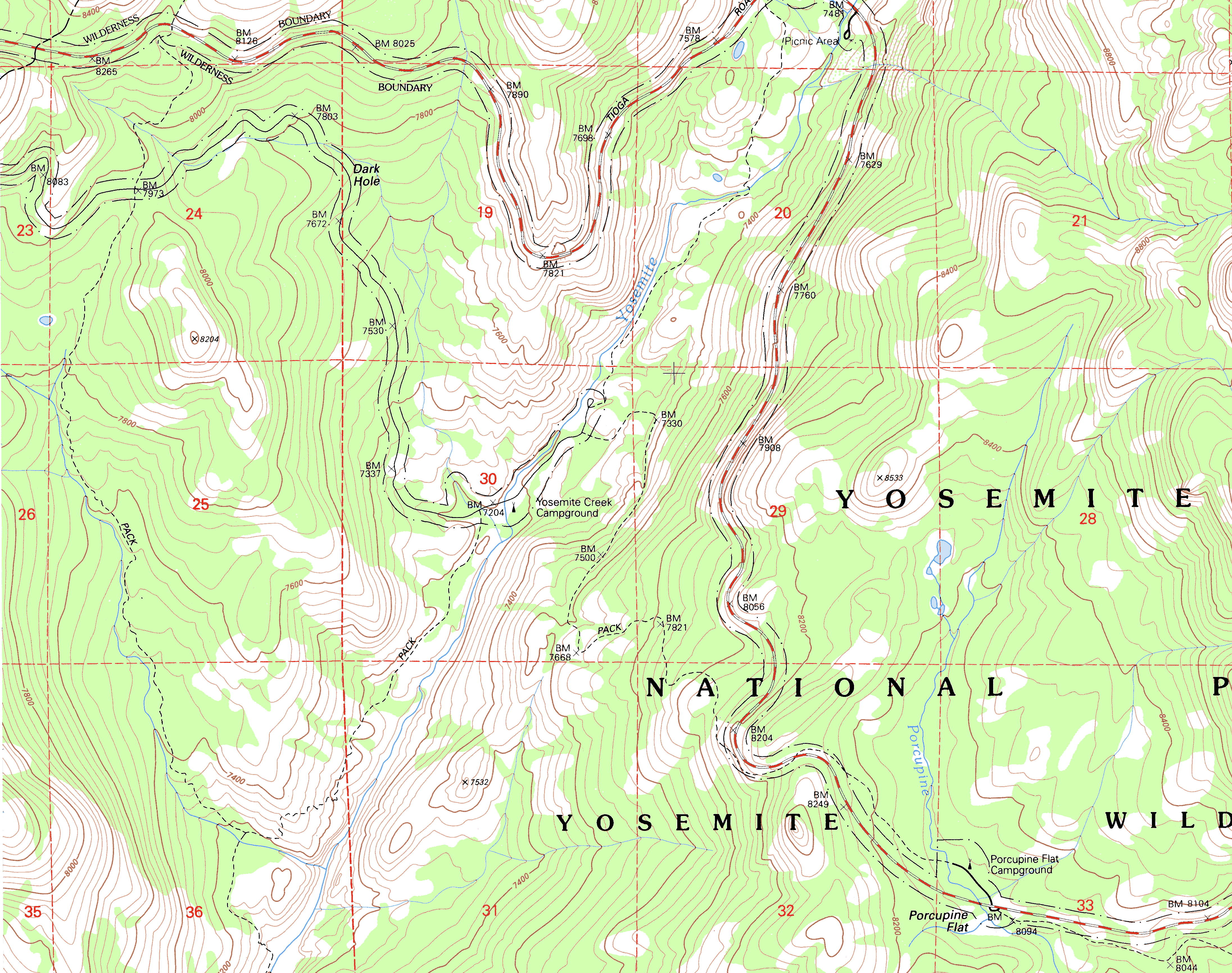 Topographic Map of a section of Yosemite Creek and Yosemite National Park — showing Yosemite Creek Campground, located south of the Tioga Road, on the creek. A trailhead for the hiking trail downstream to the top of Yosemite Falls is located here.